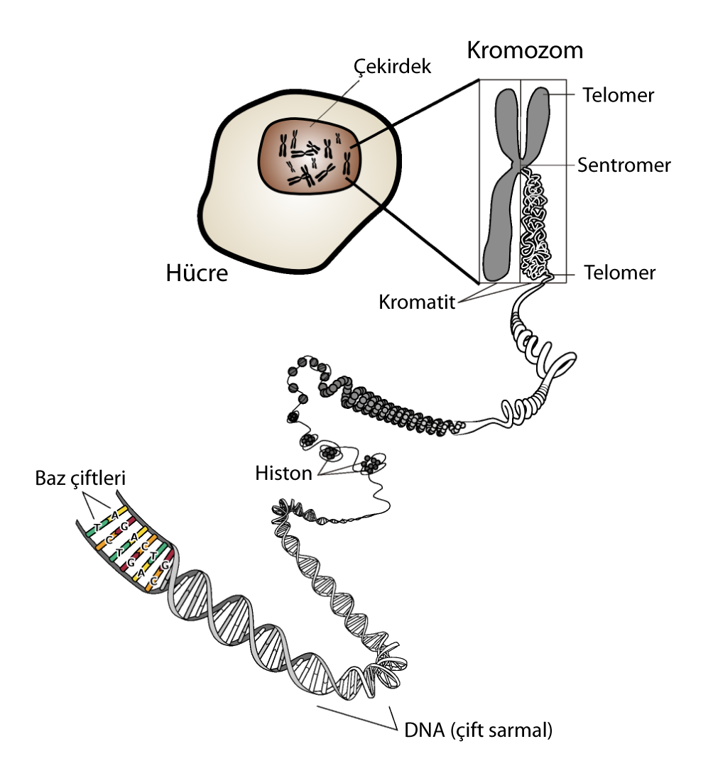 Image:Chromosom.svg from commons now with Dutch text Modell der Feinstruktur eines Chromosoms. Quelle: The source image "may be used without special permission". I, User:Phrood~commonswiki, changed the text and added some colors. This file contains vectorized glyphs from the Computer Modern fonts by the American Mathematical Society. These fonts are copyrighted, however they may be used freely, provided that any changes from the original files are published under a different name (